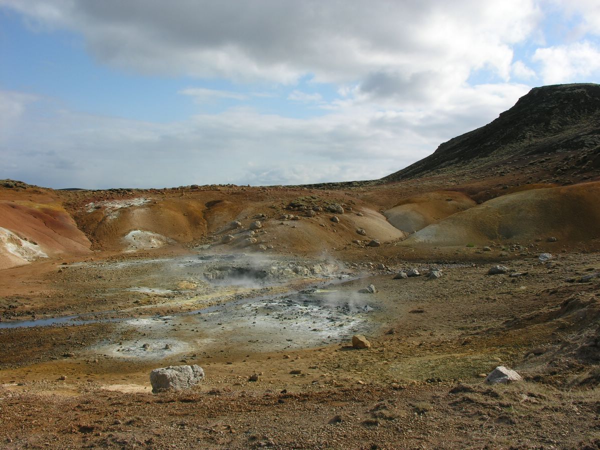 Krysuvik, a thermal area in the Southwest of Iceland